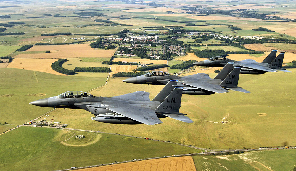 F-15s of the 48th Operations Group